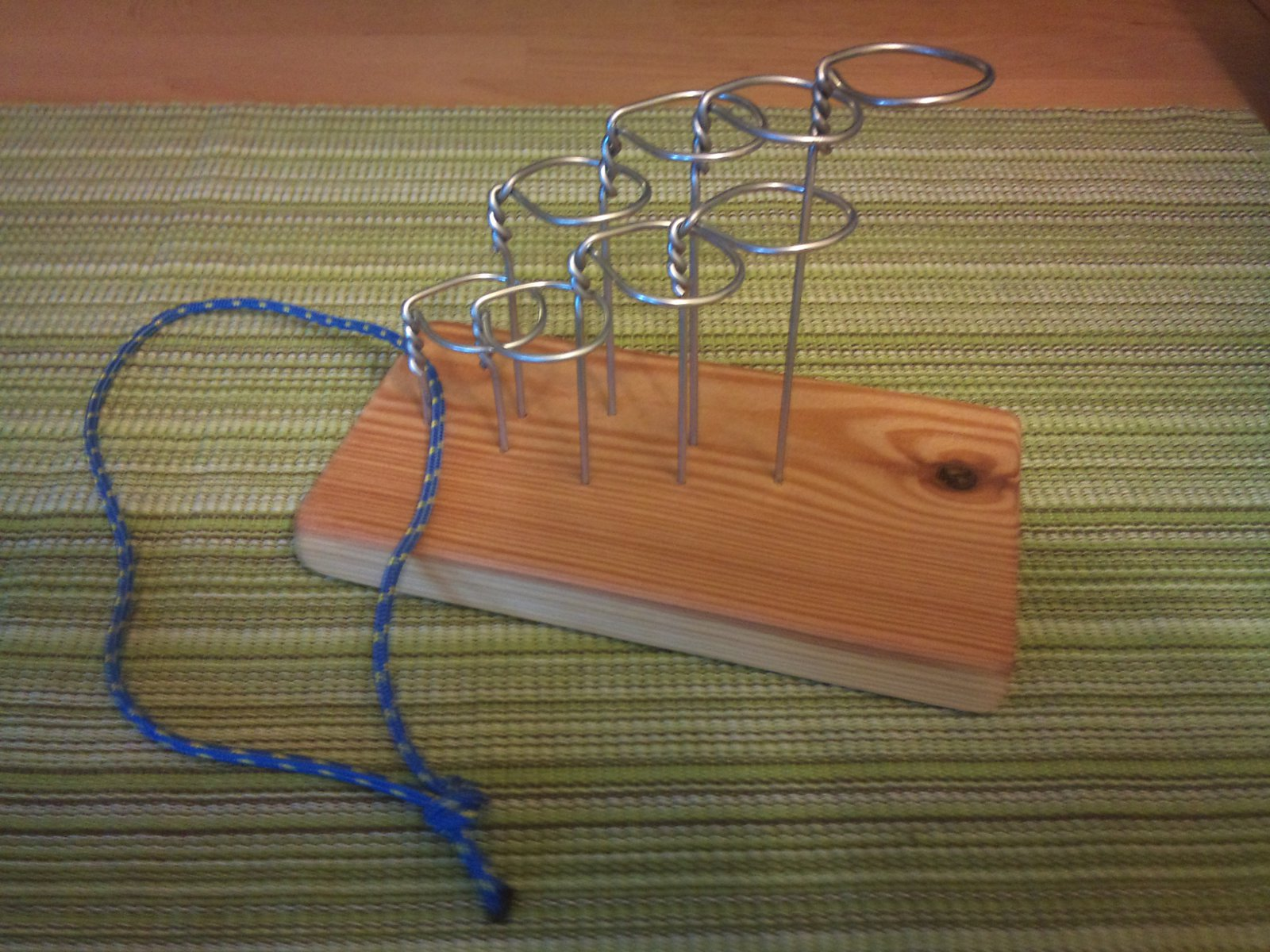 Assembling a Staircase Disentanglement Puzzle step by step. That is how the final puzzle might look like. In contrast to more simple disentanglement puzzles like Chinese Rings this puzzle is not linear. The rings split up into to branches and merge again like in James Dalgety's Devil's Halo.